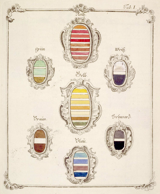 "Schäffer's system relied on colors that could be found in an artist's shop, and it called for many mixtures, including combinations within a color group: reds with reds, browns with browns, etc. Rather than attempt to include all colors in a single sheet, he devised an initial page of principal colors, and separate pages for colors made from mixtures. Schäffer's conception of color is genealogical and hierarchical; he presented the principal colors not as a continuous line but as families, each with its own coat of arms." (from The Creation of Color in Eighteenth-Century Europe [2006], by Sarah Lowengaard)